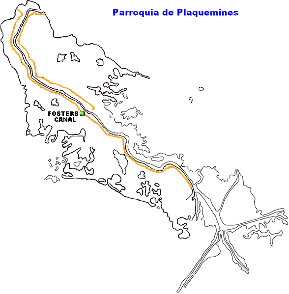 Sesotho sa Leboa: Fosters Canal (LA)